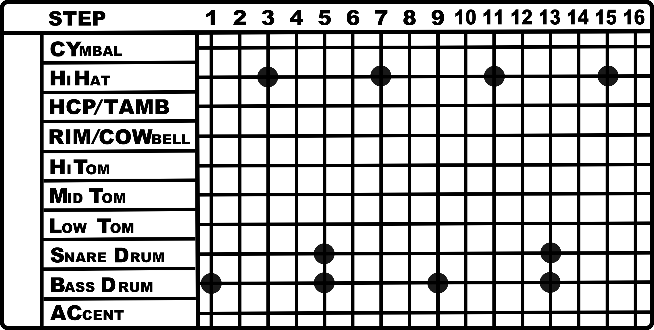 Four on the floor on Roland TR-707